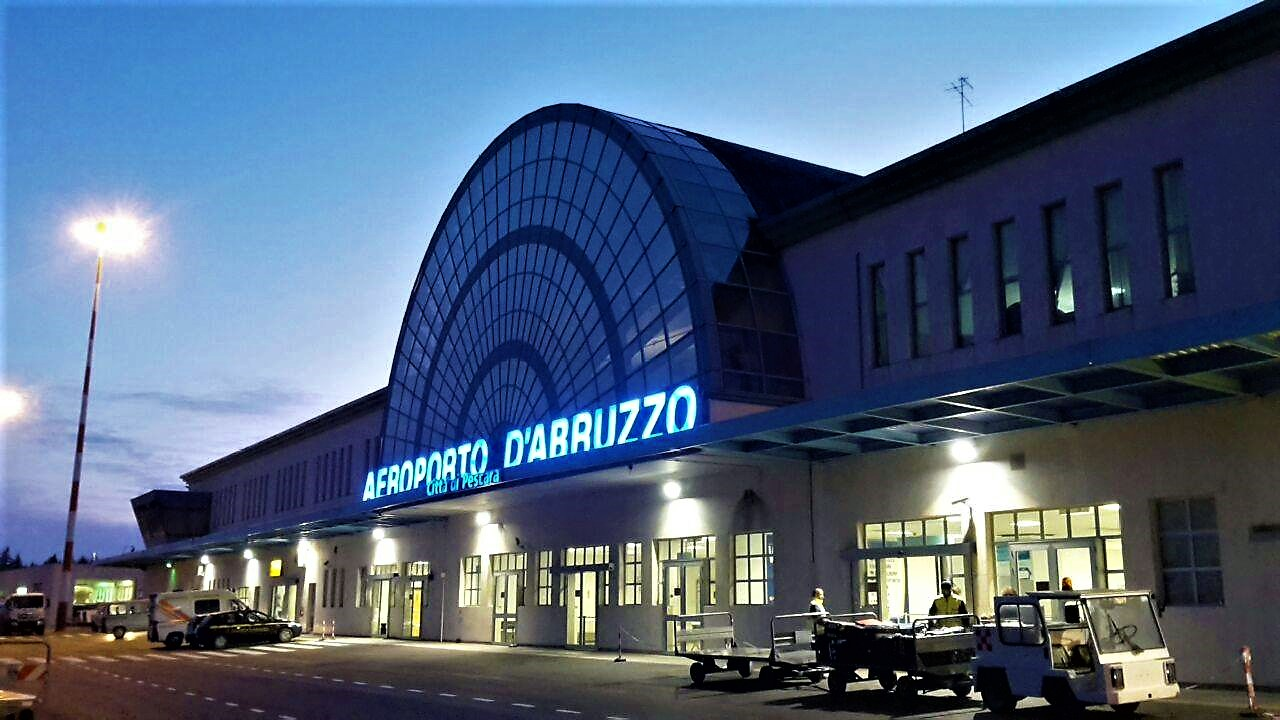 Terminal seen from Apron 1